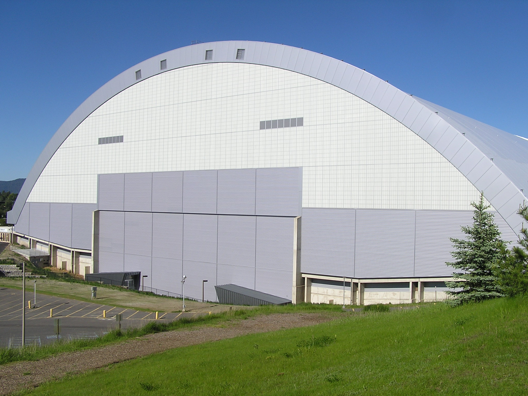 The west end of the Kibbie Dome, home arena of the University of Idaho Vandals in Moscow, Idaho.